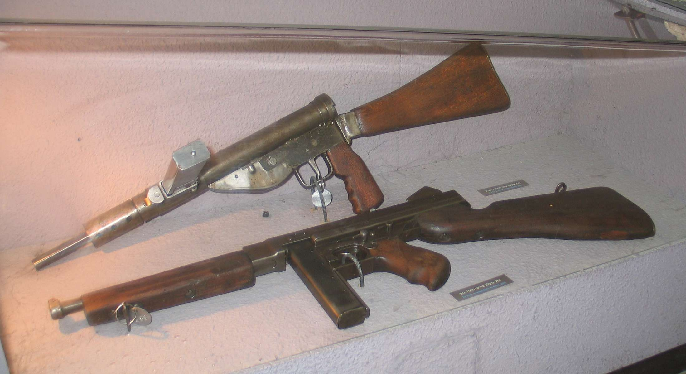 Etzel in 1948 museum (Beyt Gidi), Tel Aviv, Israel.